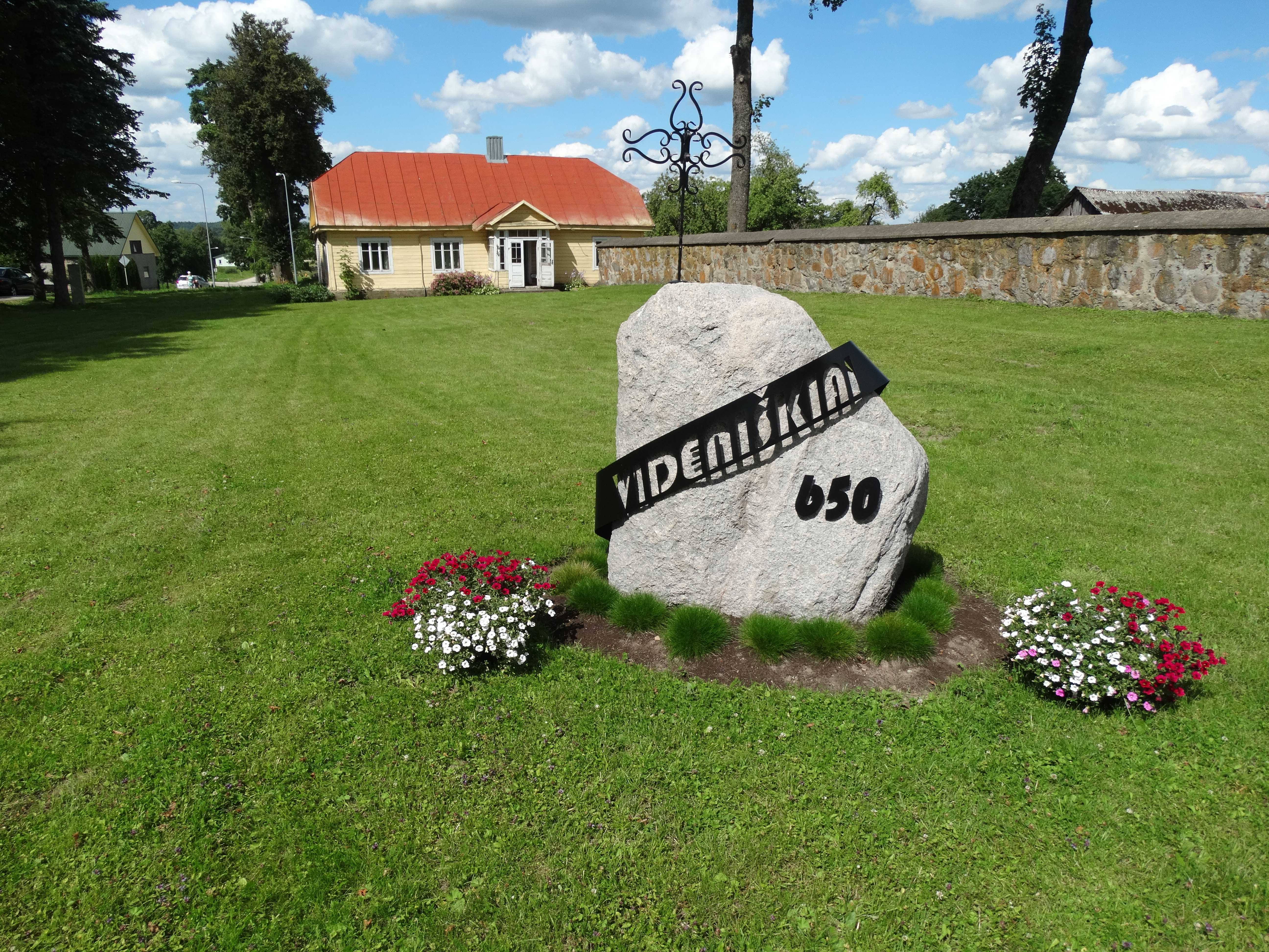 Videniškiai, anniversary stone, Molėtai district, Lithuania